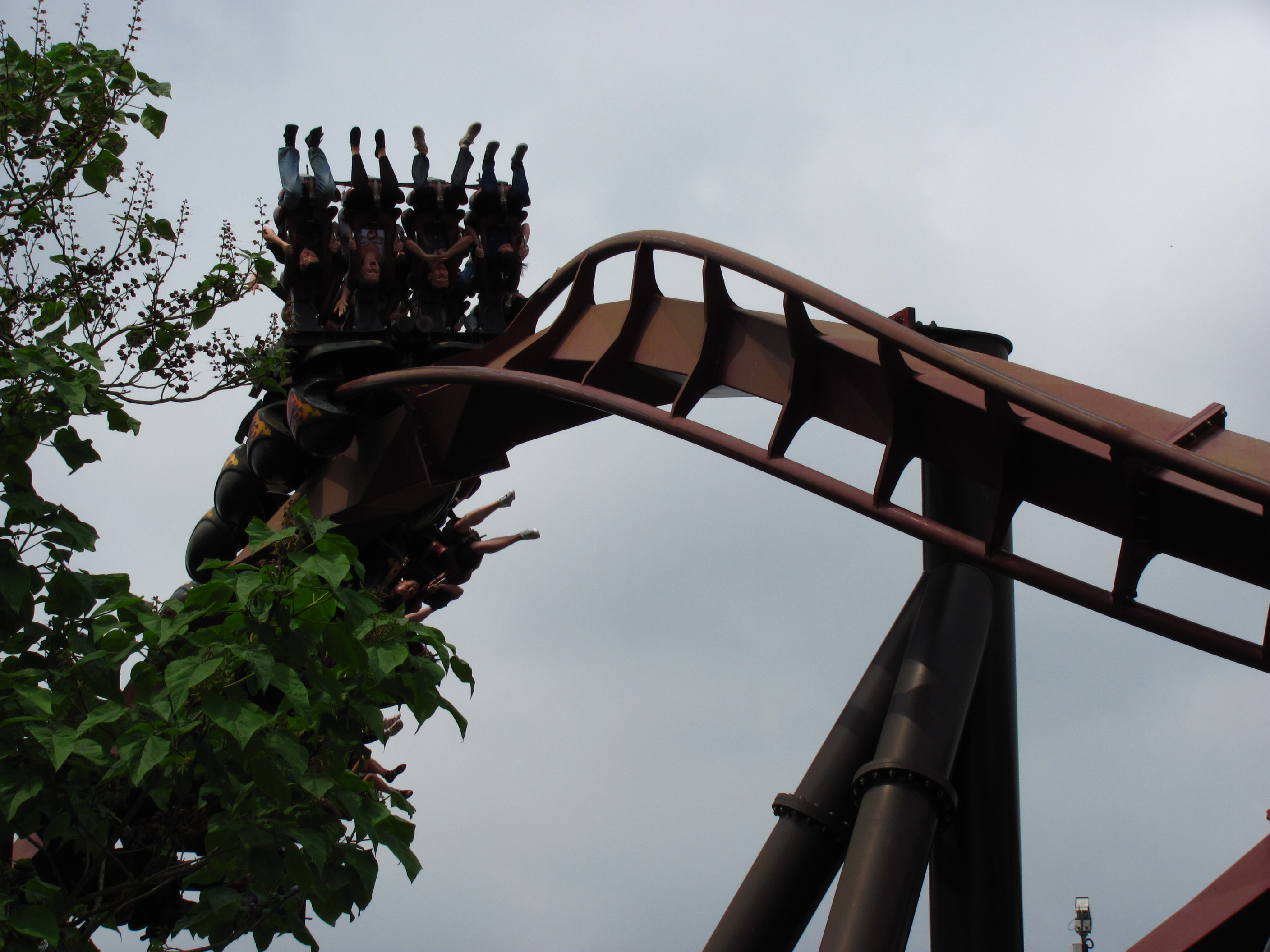 Thorpe Park 069 Nemesis Inferno at Thorpe Park